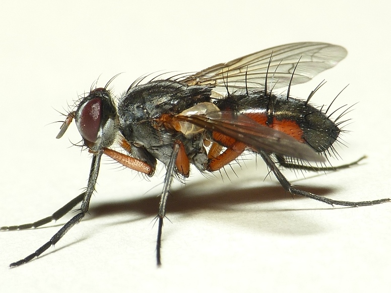 Mintho rufiventris, location: The Netherlands - Rhenen - Blauwe Kamer - Gelderland